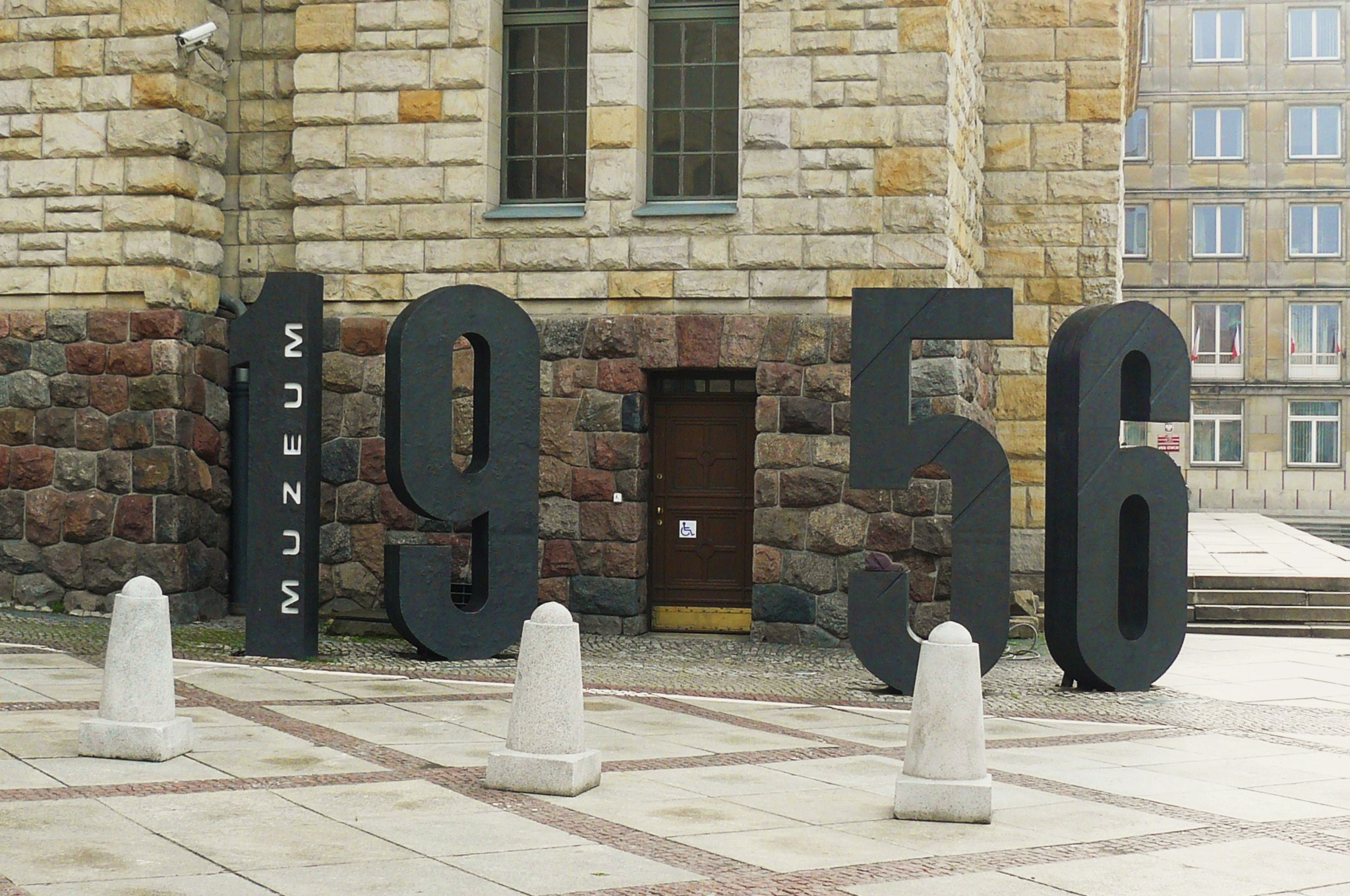 Museum of Poznan Uprising 1956.